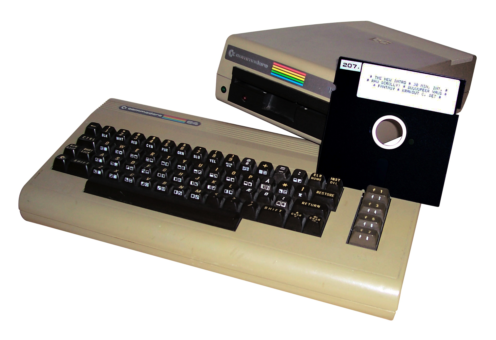 A Commodore 64 with disk and drive